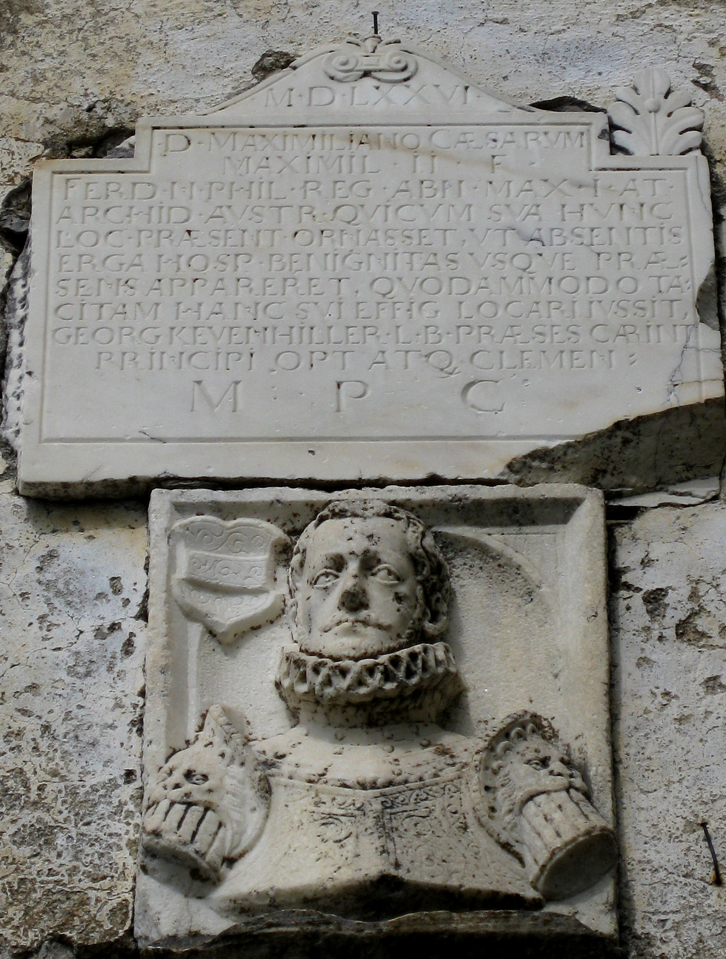 Hochosterwitz castle (slovenian: grad Ostrovica), castle in Carinthia state, Austria 10th door